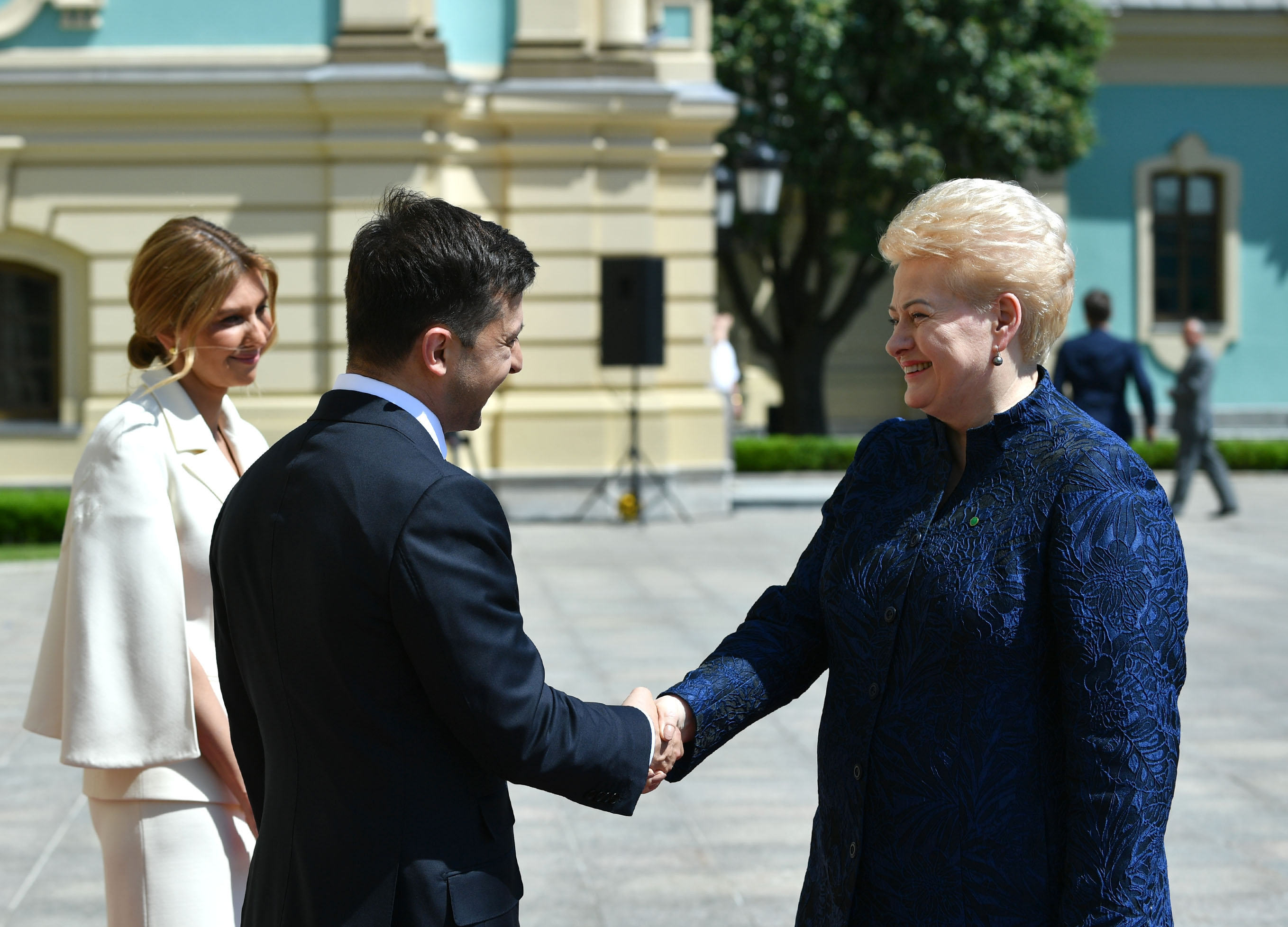 Volodymyr Zelensky presidential inauguration, 20th May 2019